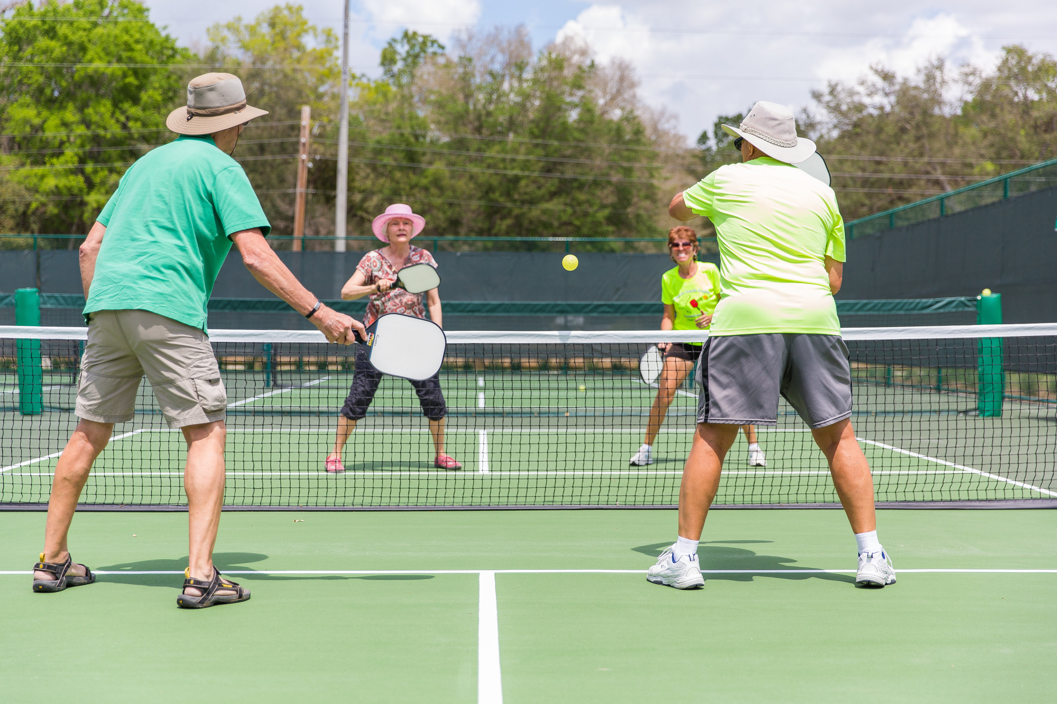 Photo of a group of pickleball players in The Villages